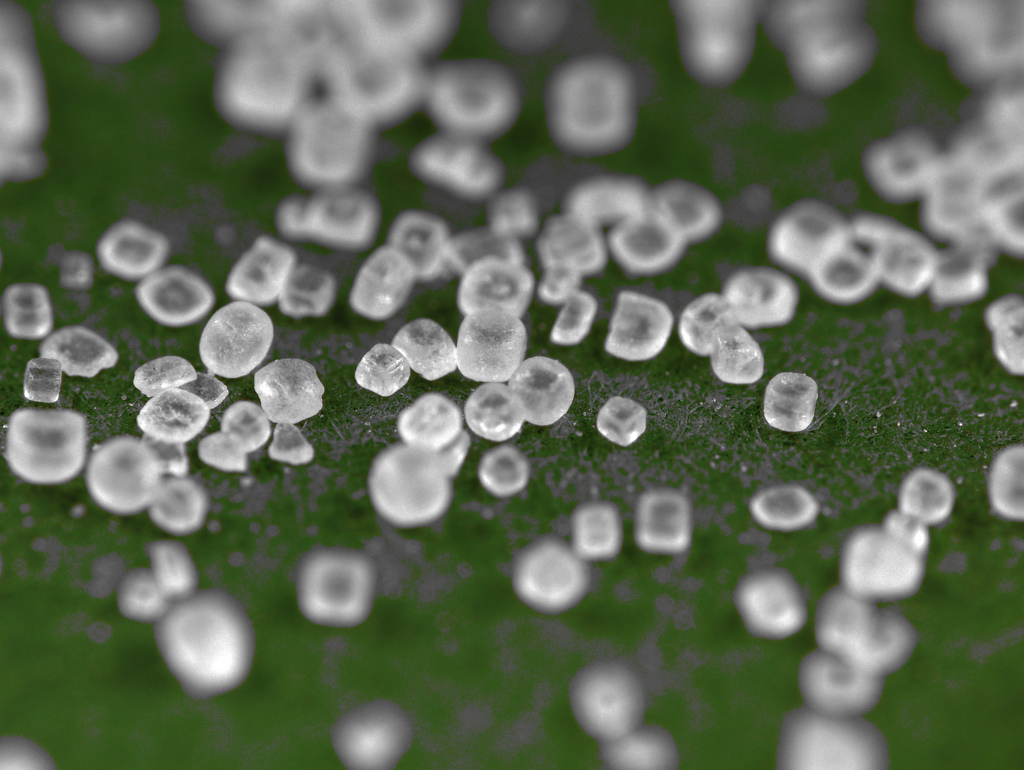 salt